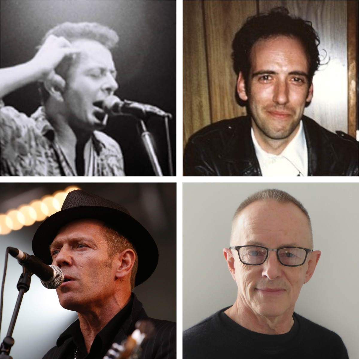 Musicians fo the Clash: Paul Simonon